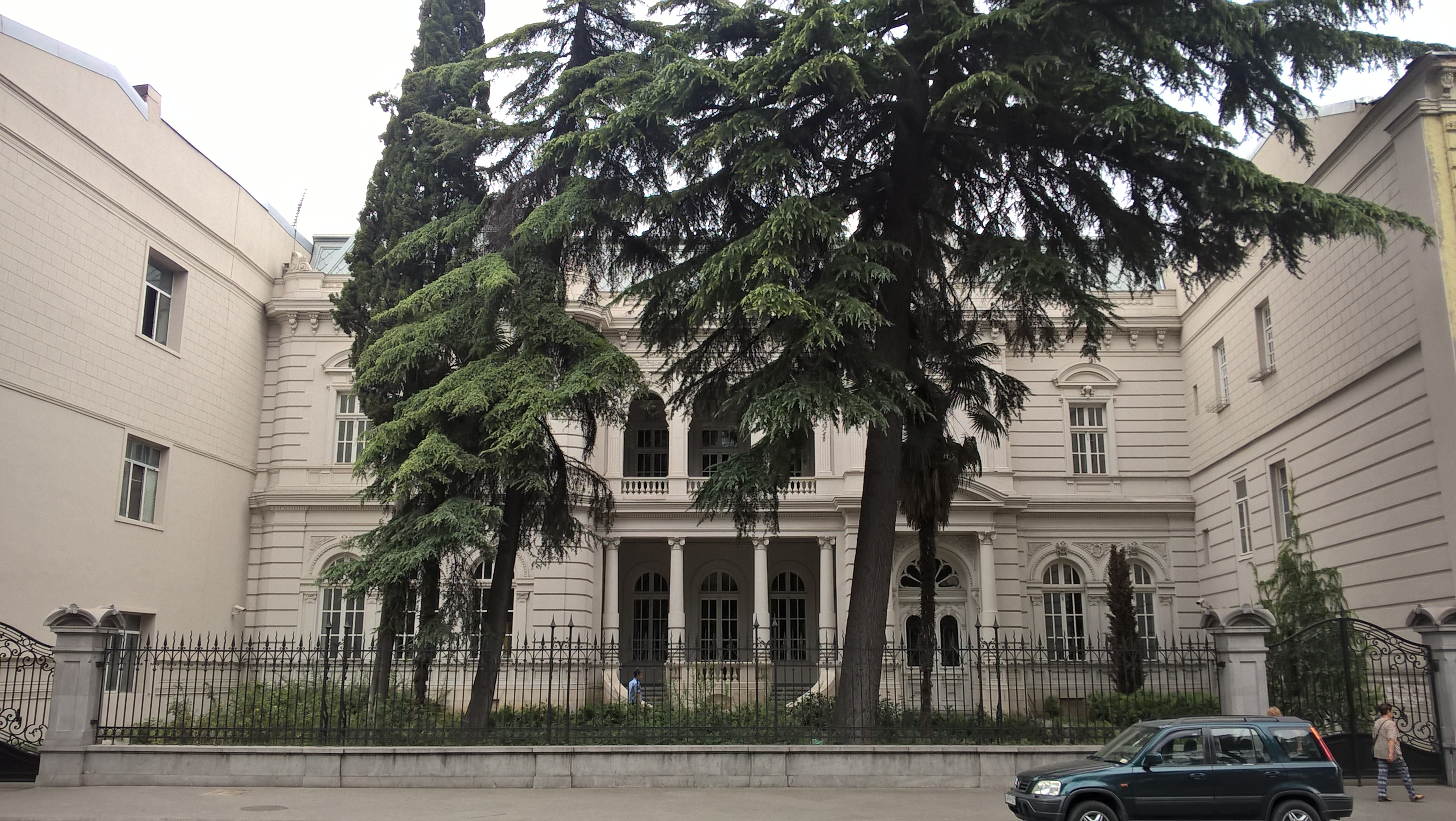 Giorgi Atoneli street 25, Tbilisi, Georgia